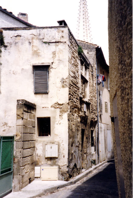 Nostradamus's claimed birthplace in the rue Hoche, St-Rémy-de Provence, France